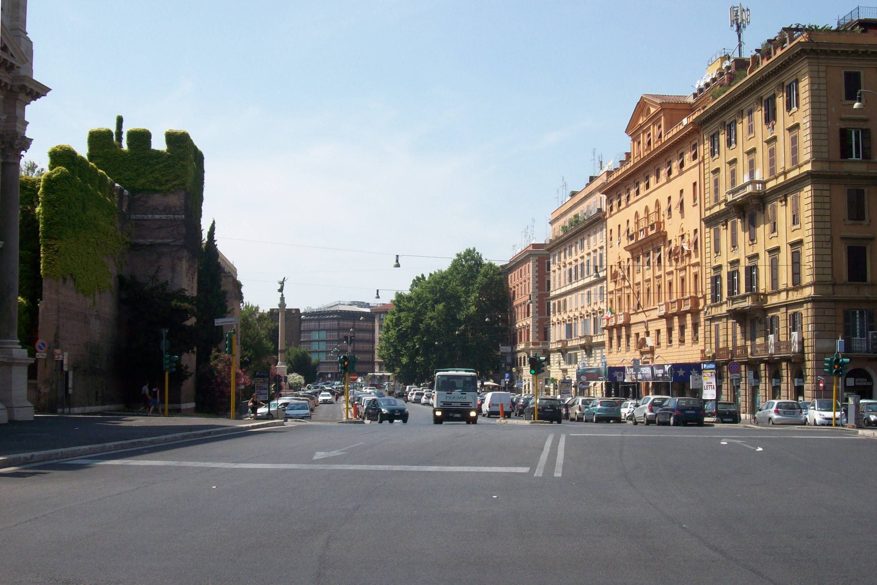 The last segment of Corso d'Italia, a street of Rome that borders the Aurelian walls from Porta Pinciana to Porta Pia